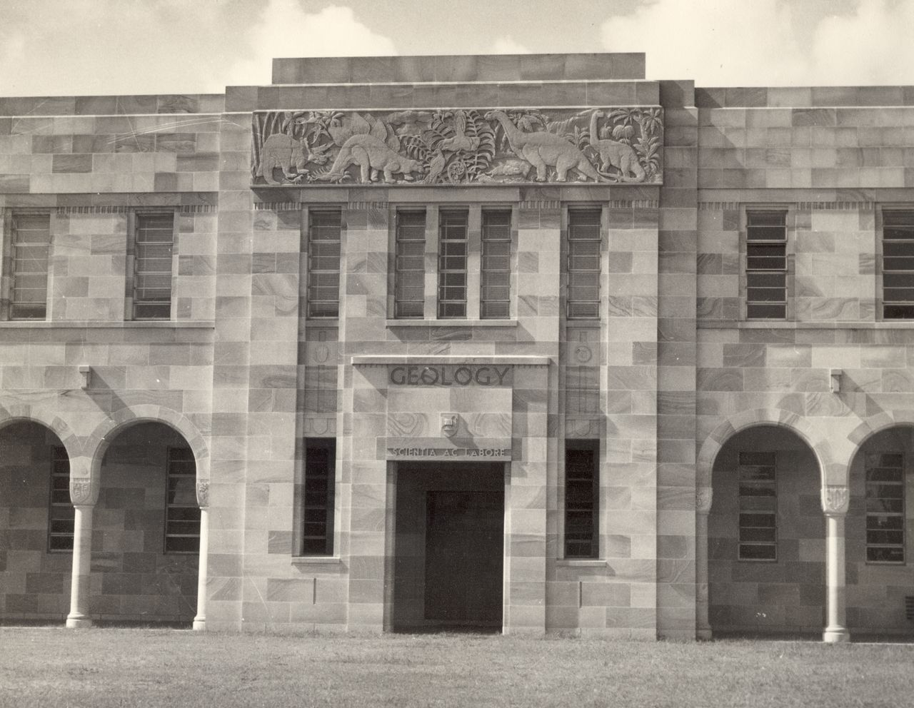 University of Queensland Richards Building, Geology, depicting frieze designed by staff. Named in honour of Professor H.C. Richards.